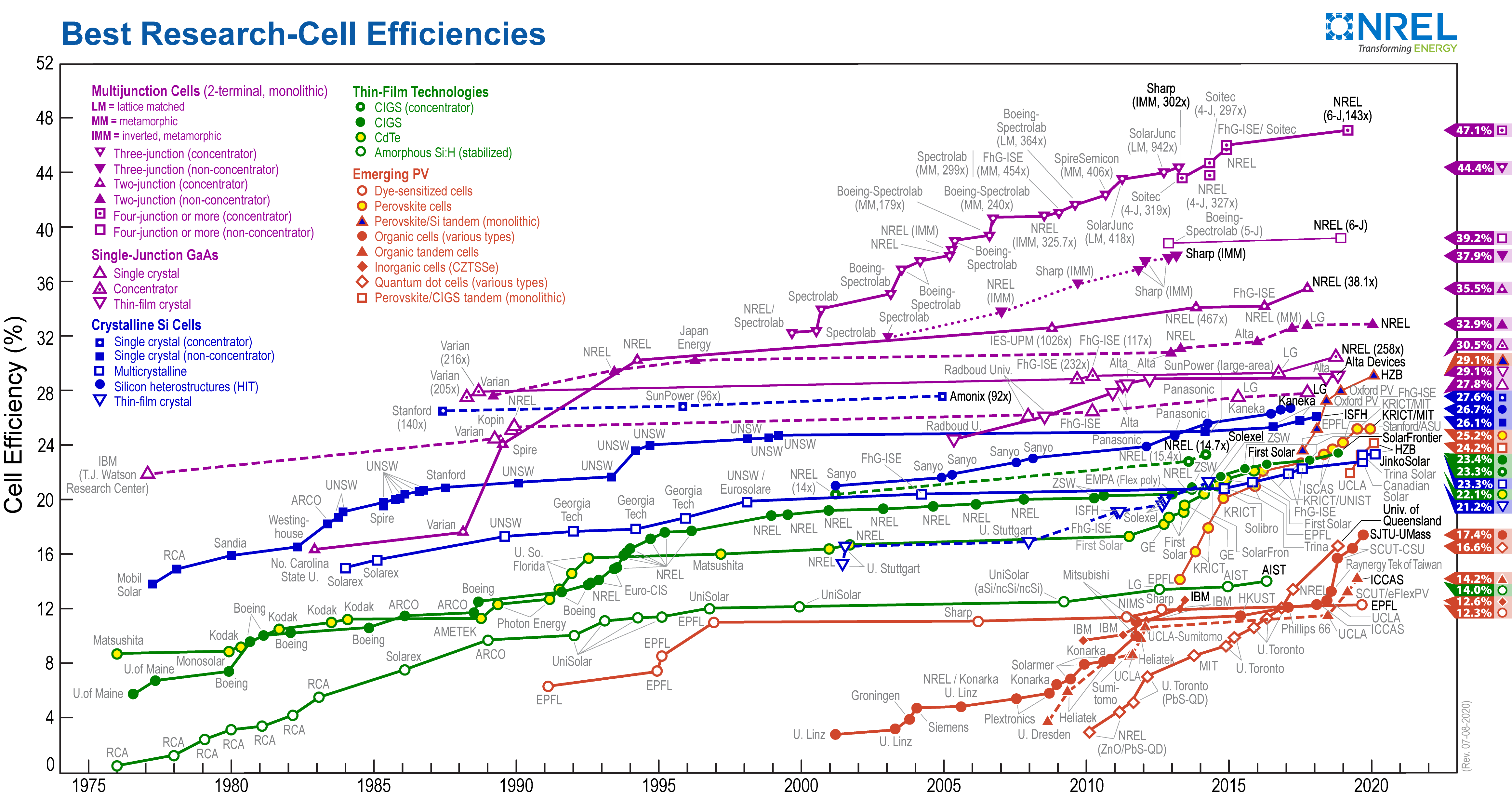 Conversion efficiencies of best research solar cells worldwide from 1976 through 2020 for various photovoltaic technologies. Efficiencies determined by certified agencies/laboratories.